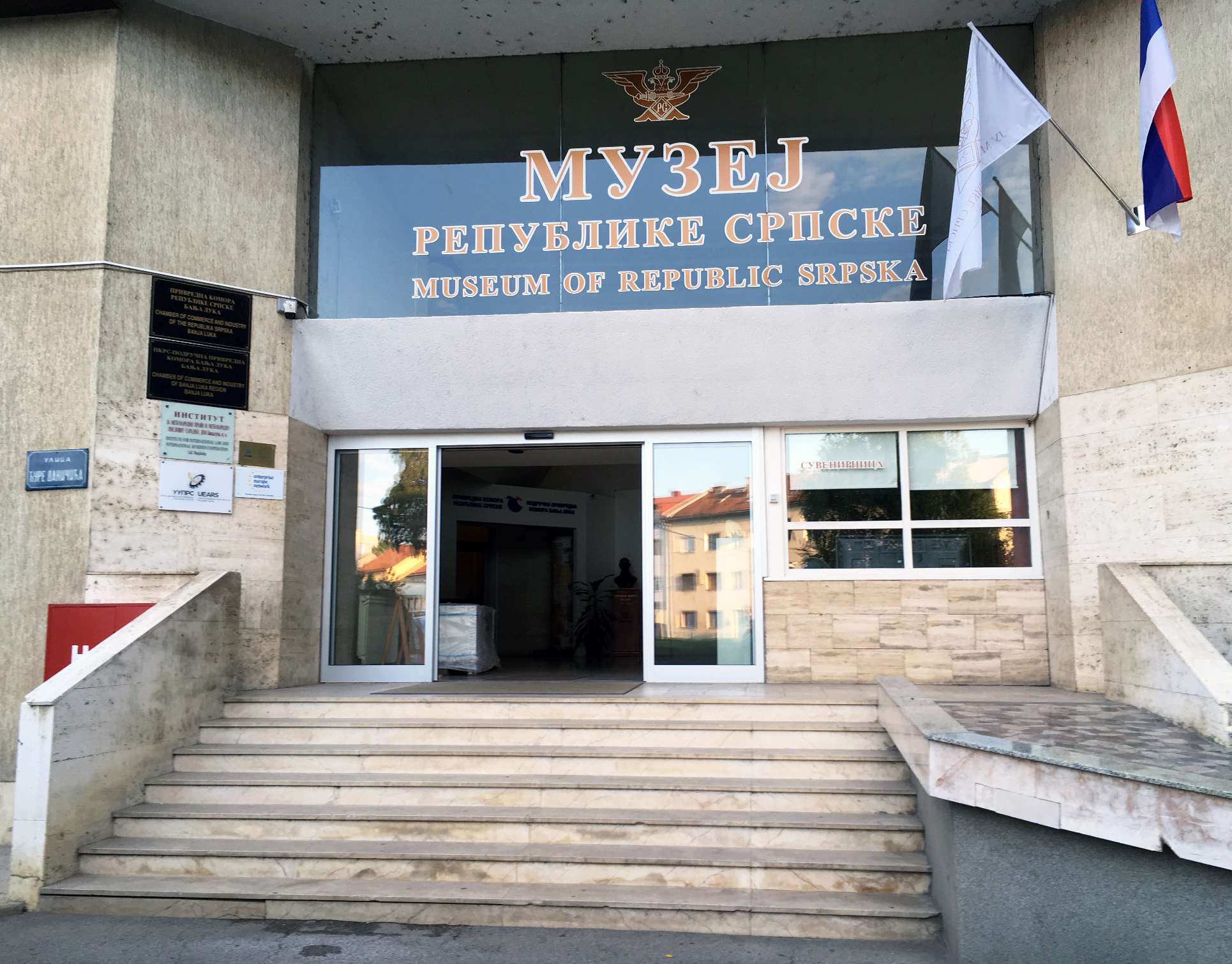 Museum of Republika Srpska entrance